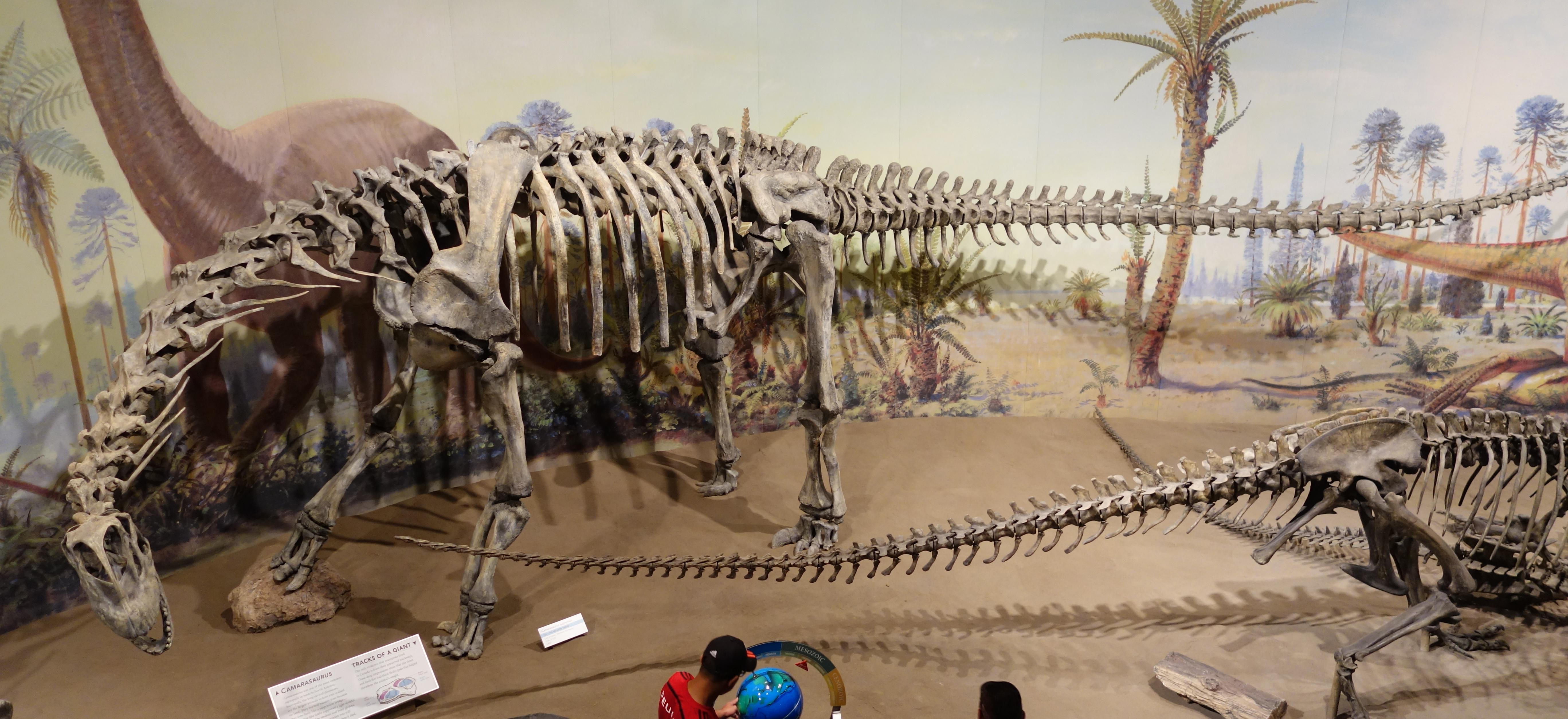 Camarasaurus mount. On display at the Royal Tyrrell Museum, Alberta, Canada.